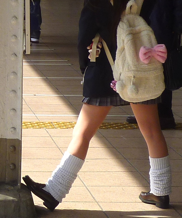 A stereotypical fashion of high school girls, loose socks (ルーズソックス) are not seen so often these days. Finally spotted some in the "wild" so to speak. Captured here for the fashion statement, and a record of the fashion itself.